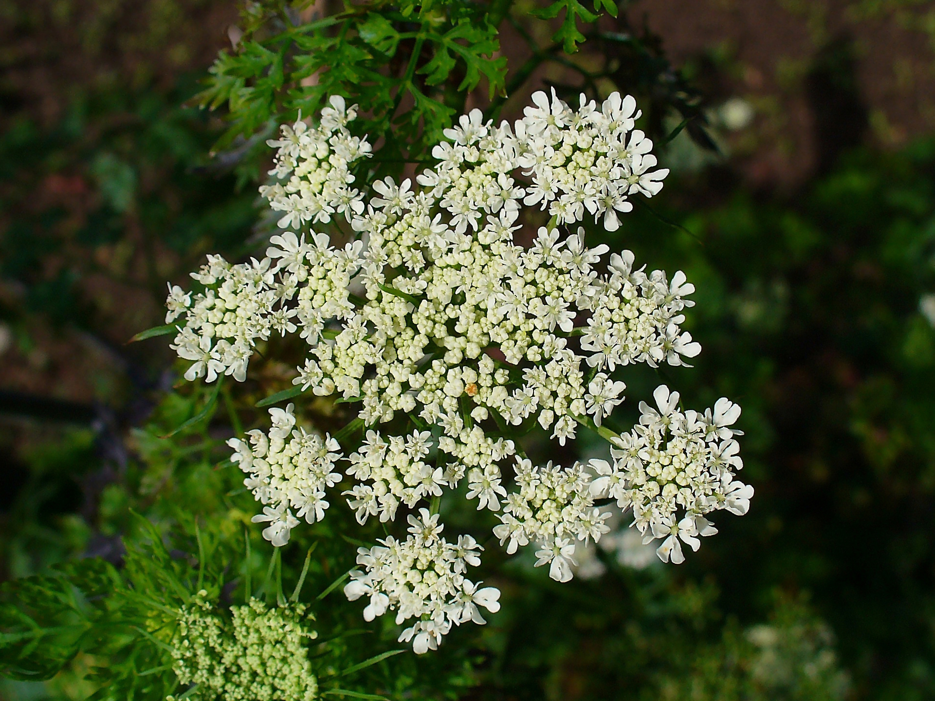 Aethusa cynapium, Apiaceae, Fool's Parsley, Fool's Cicely, Poison Parsley, inflorescence. The plant is used in homeopathy as remedy: Aethusa (Aeth.)